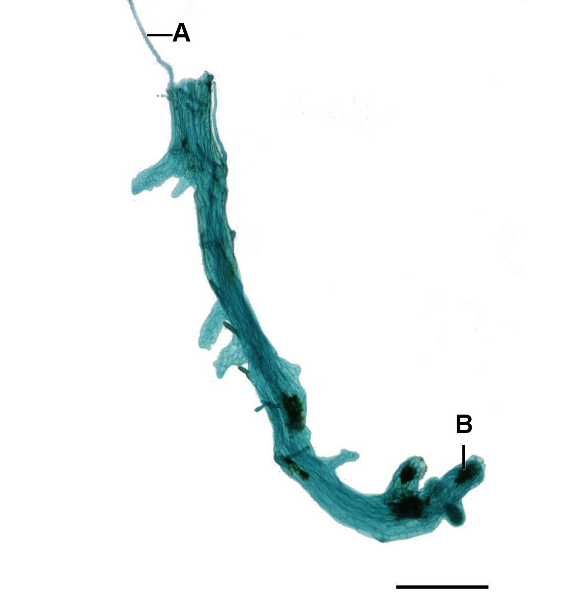 Whole mount of an Equisetum gametophyte. A=Rhizoid, B=Antheridium. Scale=0.6mm.